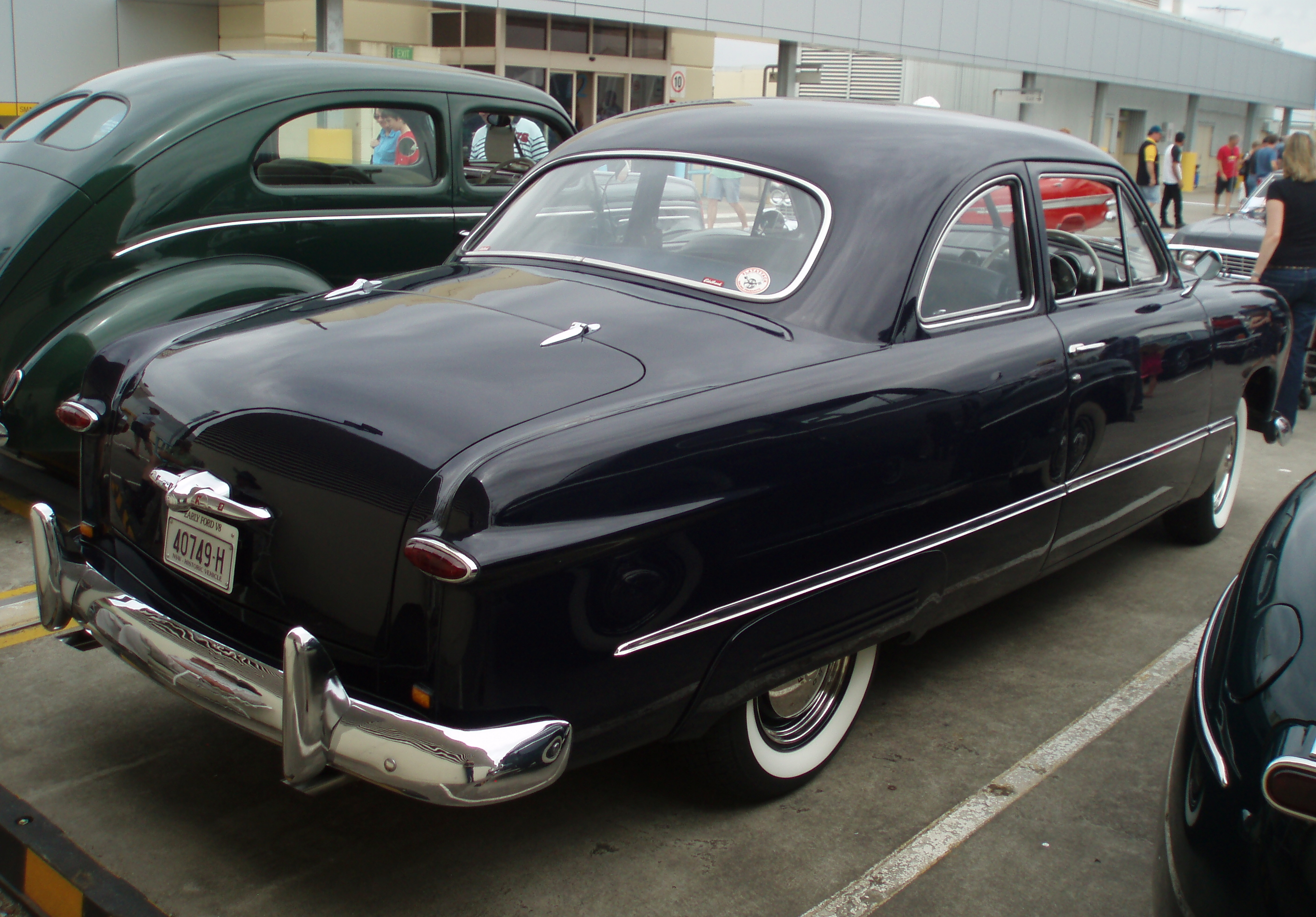 1949 Ford V8 coupe. Taken at the 2011 New South Wales All American Day, held at Castle Towers Shopping Centre, Castle Hill, Sydney.